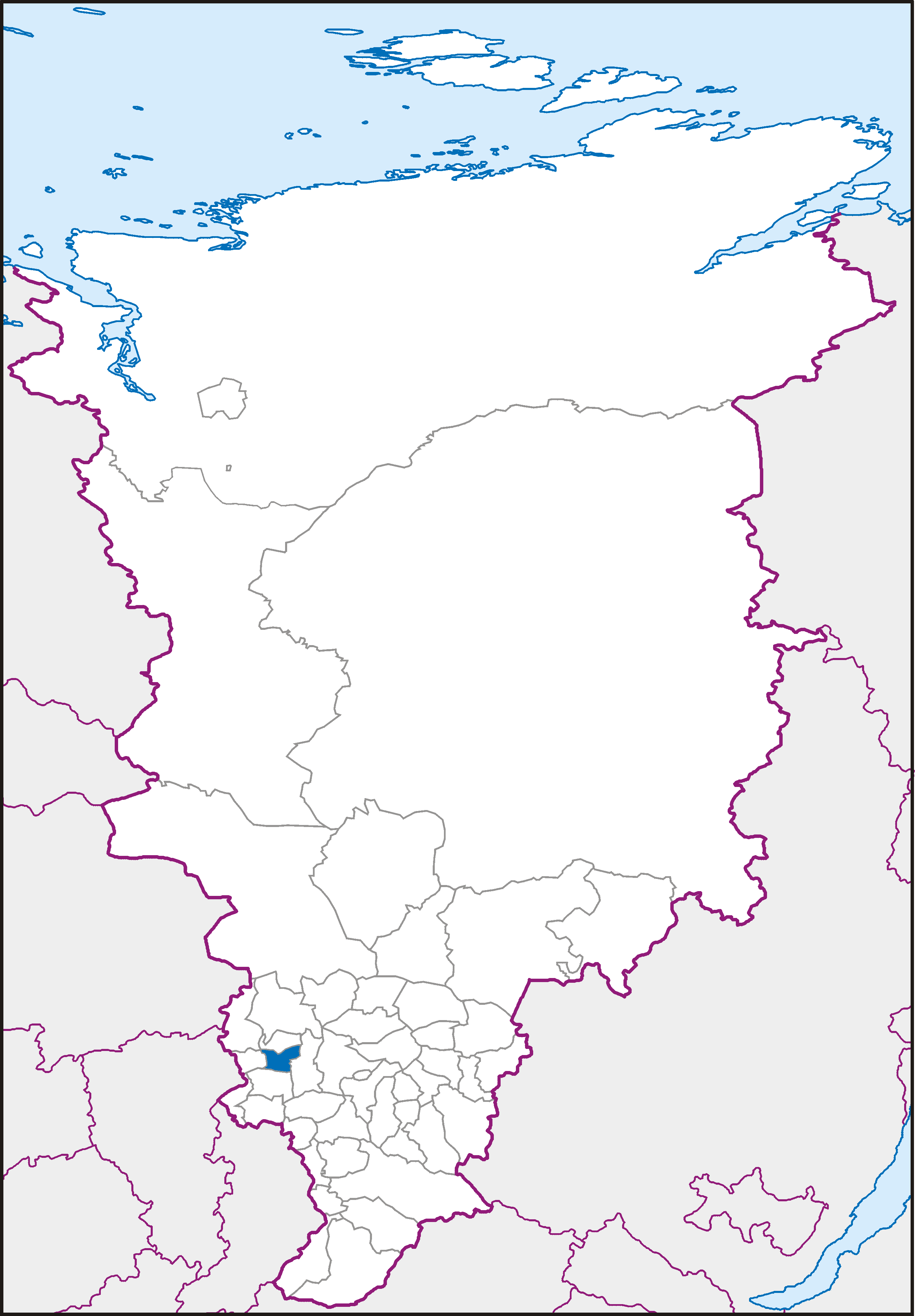 Map of Krasnoyarsk Krai in Albers Equal-Area Conic projection (Central Meridian = 95° E)